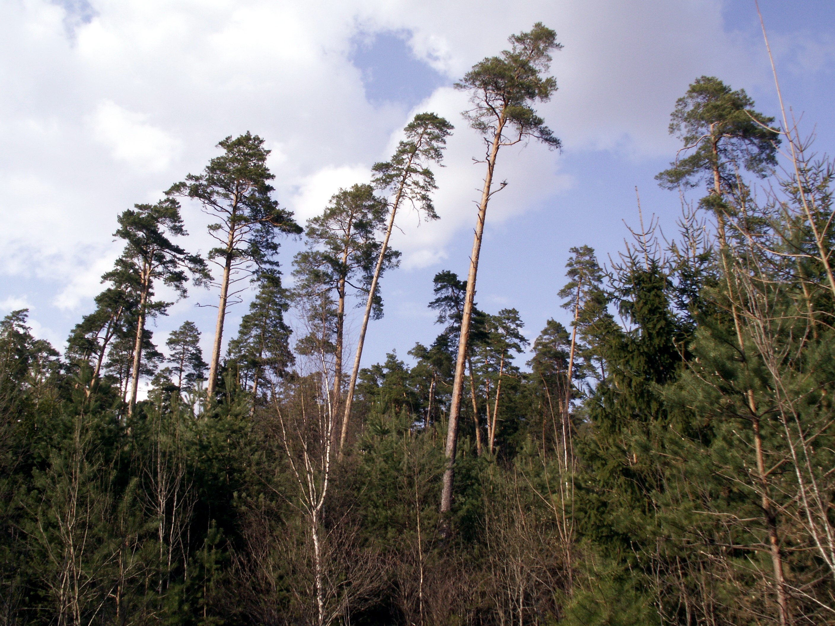 Tytuvėnai forest, Kelmė district, Lithuania